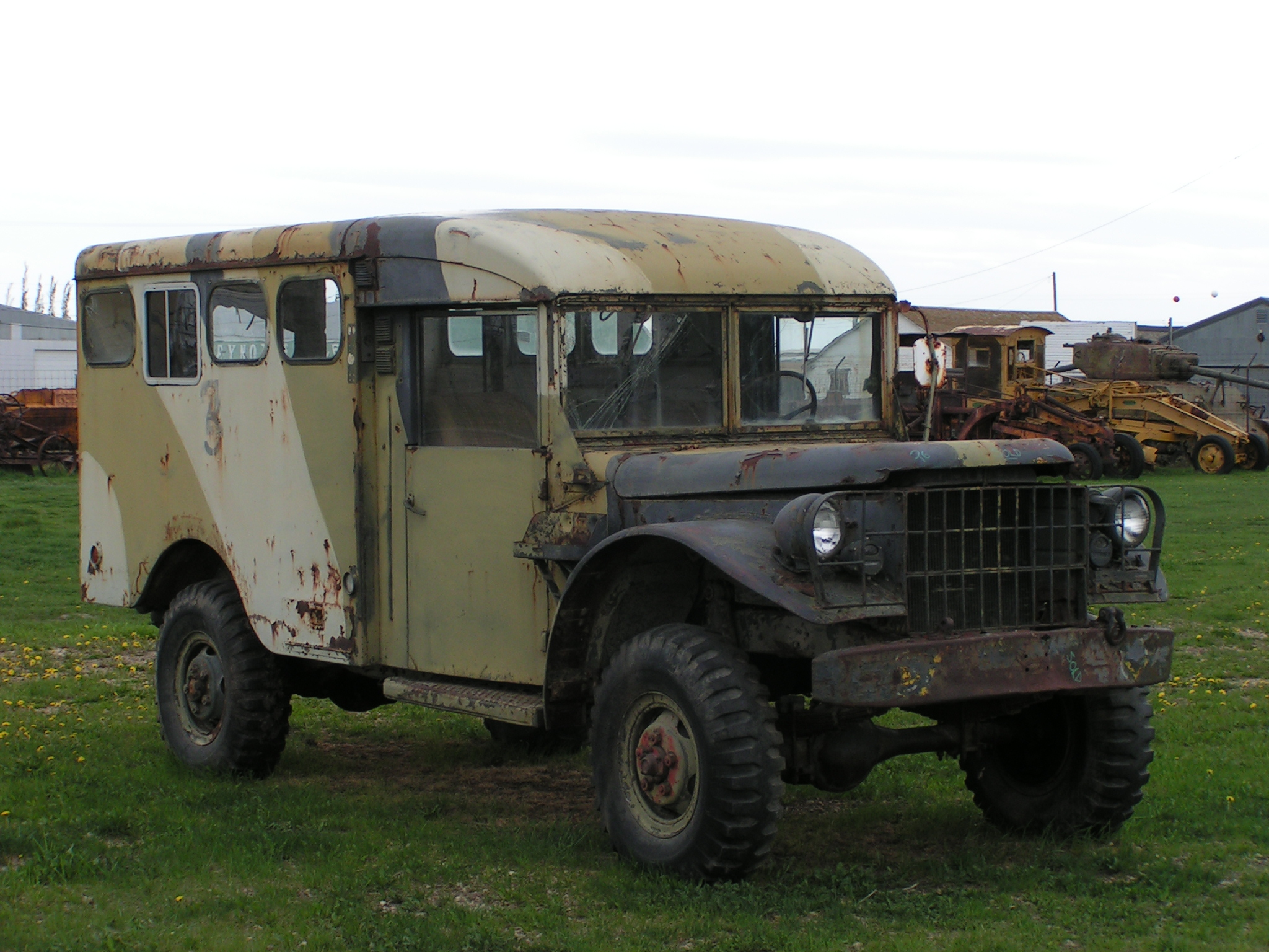 Army Dodge Power Wagon